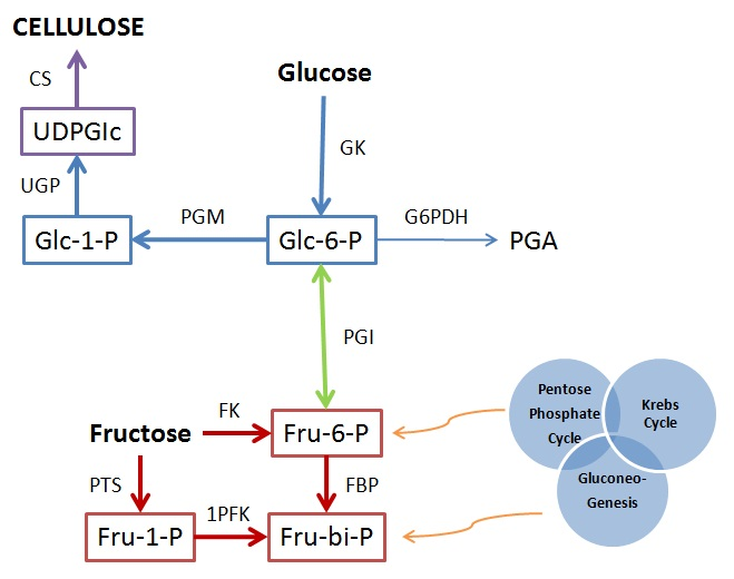 Pathways of carbon metabolism in A.xylinum. CS (cellulose synthase) FBP (fructose-1,6-biphosphate) FK (glucokinase) G6PDH (glucose-6-phosphate dehydrogenase) 1PFK (fructose-1-phosphate kinase) PGI (phosphoglucoisomerase) PMG (phosphoglucomutase) PTS (system of phosphotransferases) UGP (pyrophosphorylase UDPGIc) Fru-bi-P (fructose-1,6-bi-phosphate) Fru-6-P (fructose-6-phosphate) Glc-6-P (glucose-6-phosphate) PGA (phosphogluconic acid) UDPGIc (uridine diphosphoglucose)